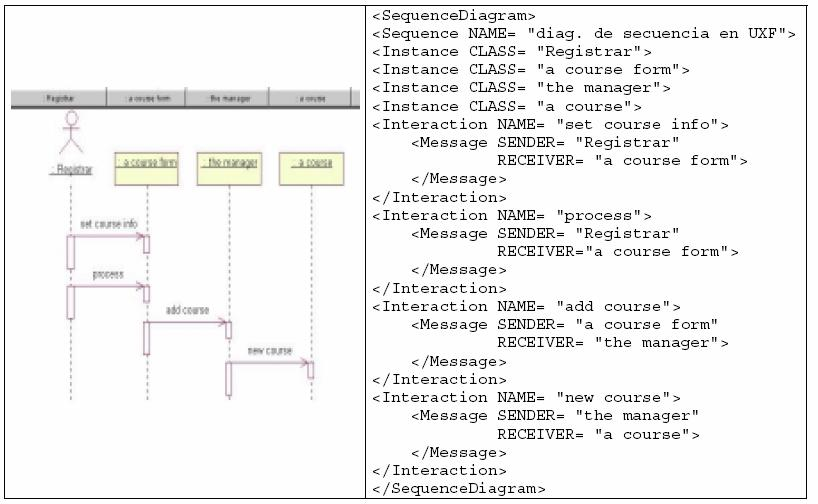 UXF Sequence diagram example. The diagram is from "Visual Modeling With Rational Rose 2000 and Uml" by Terry Quatrani. The tags are from extending UXF.